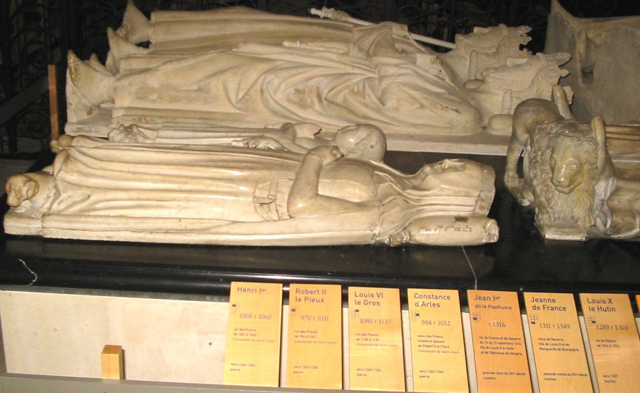 Henri I in background, Robert II, Jean I d. 1316 and Jeanne d. 1349 in Basilica of Saint Denis.